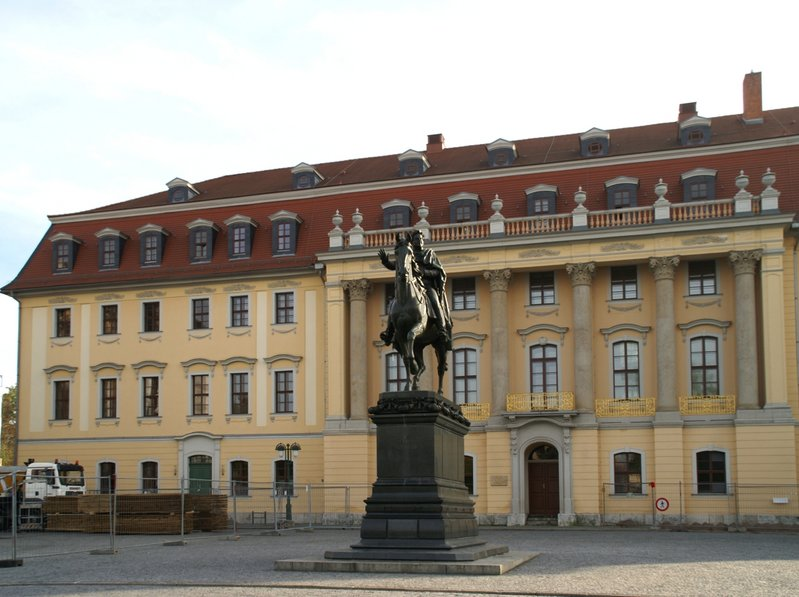 Music Academy in Weimar, Germany. Former building of the parliament of Sachsen-Weimar, 1920-1952 parliament of Thuringia.